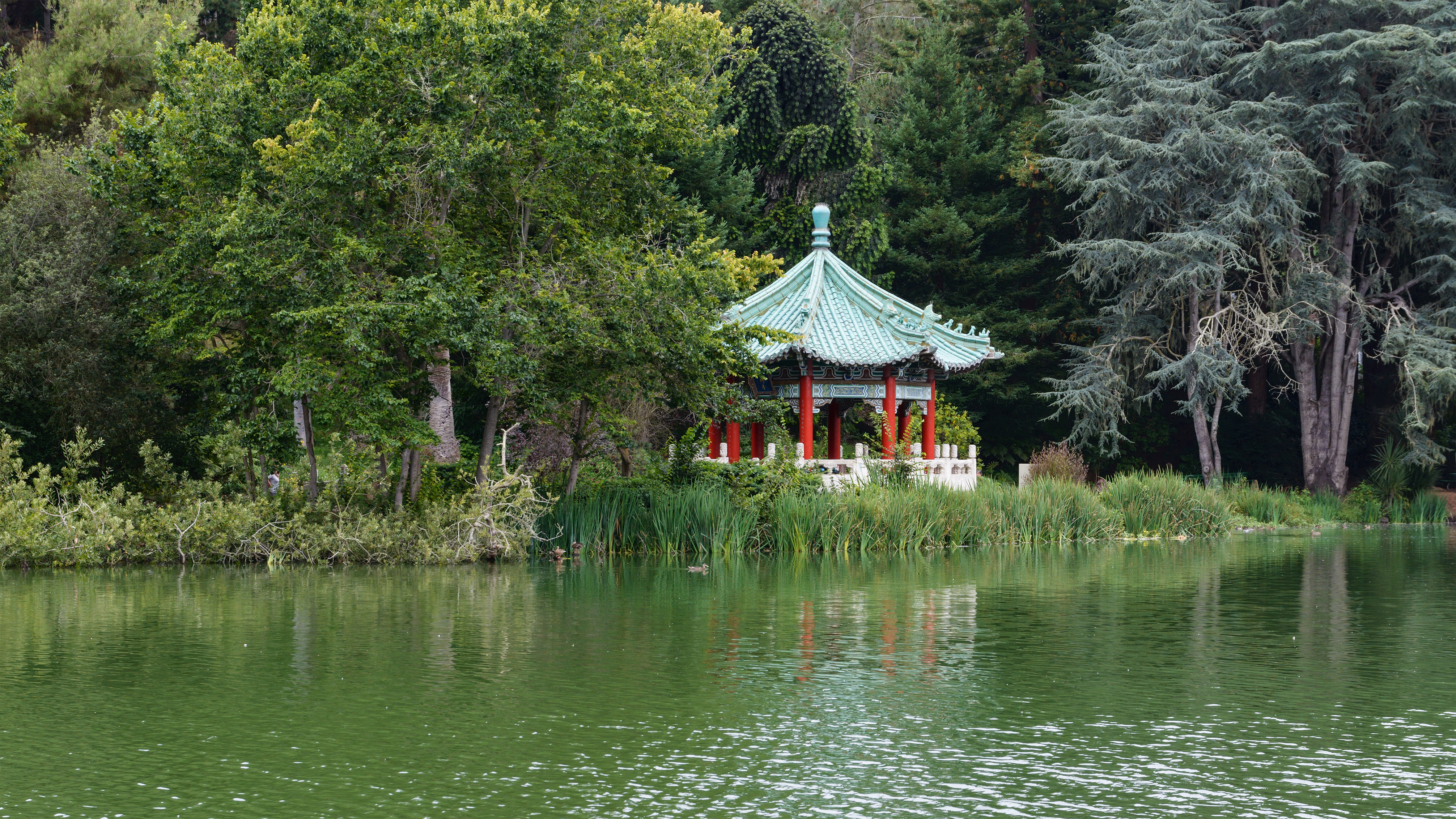 The pagoda of Strawberry Hill near the shore of Stow Lake in the Golden Gate Park in San Francisco, California, United States.